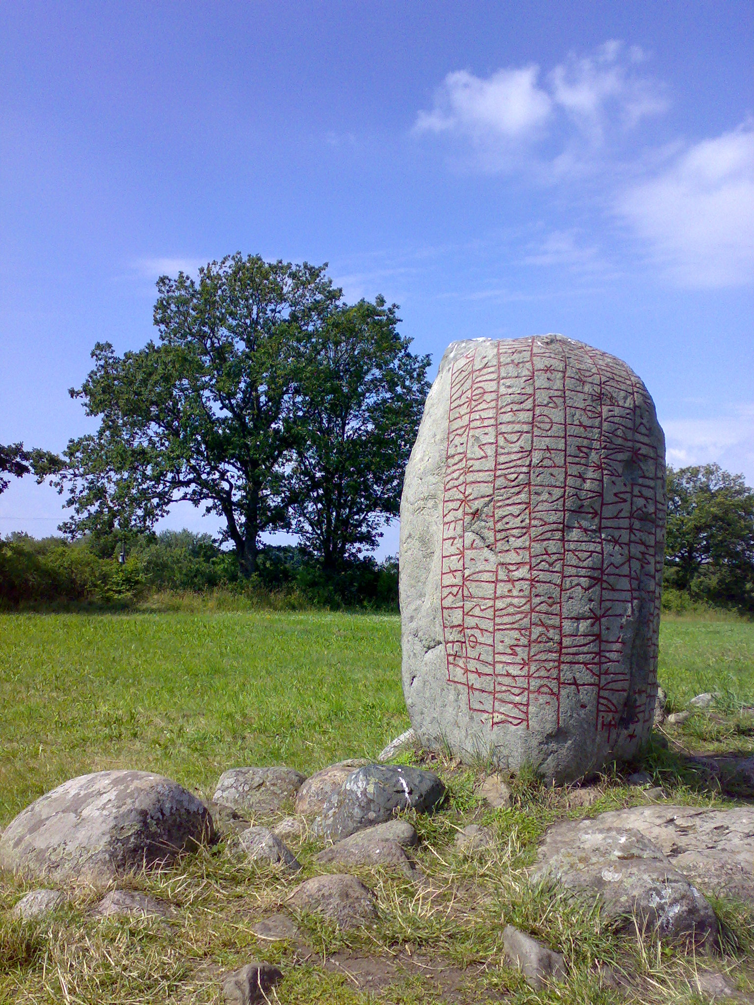 The Karlevi runestone, Vickleby Parish, Mörbylånga Municipality, southern Öland, Sweden.